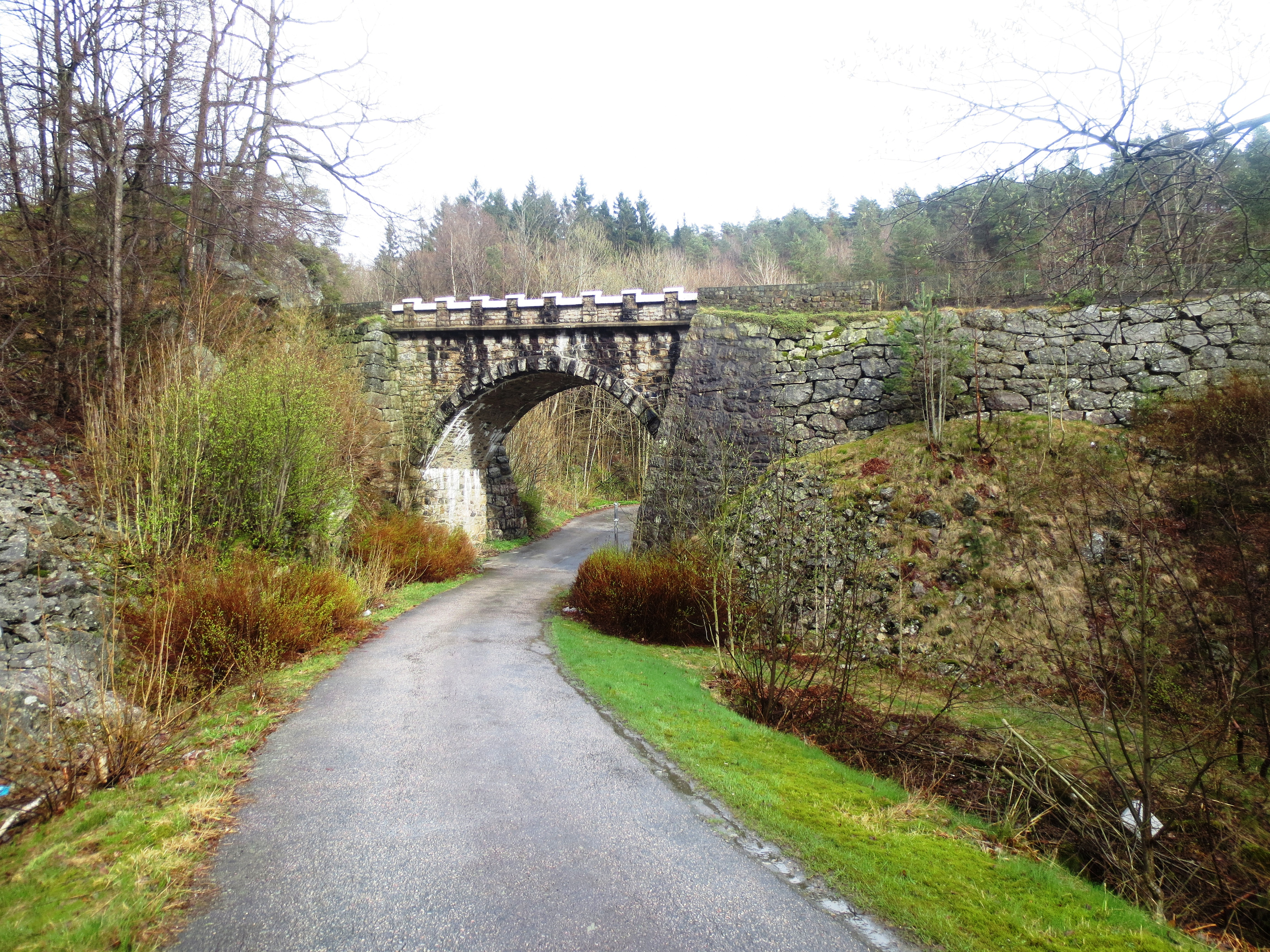 "Knuden" old bridge from 1929, in Mandal municipality, west of Kristiansand and along the now E-18 highway. Vest-Agder county, south Norway.